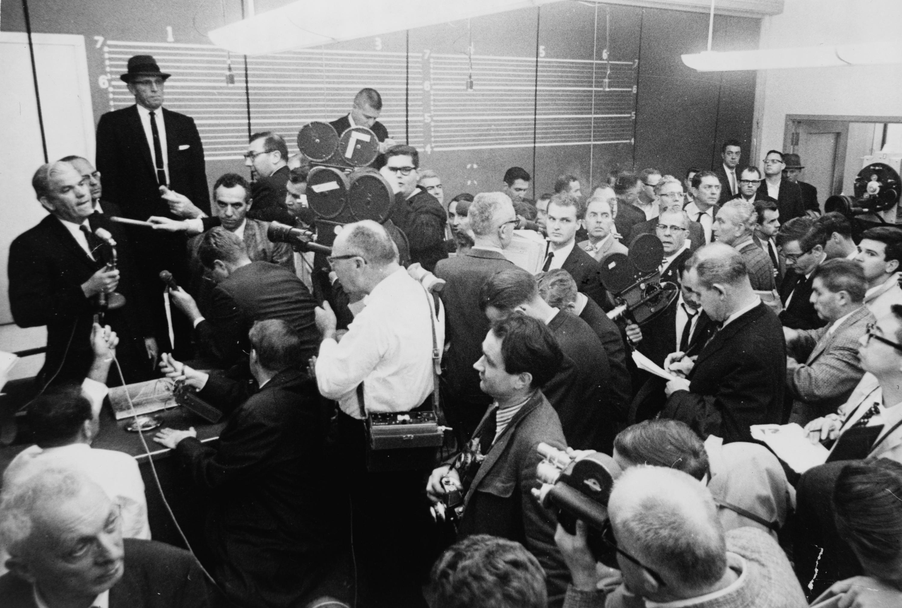 Dallas District Attorney Henry Wade (l) conducts press conf. in line-up room, Dallas, Texas, after the assassination of President Kennedy. New York Herald Tribune photo by Bill Sauro.